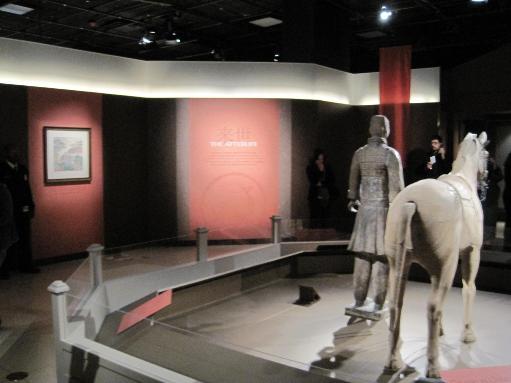 “Terra Cotta Warriors: Guardians of China’s First Emperor” in the United States os America